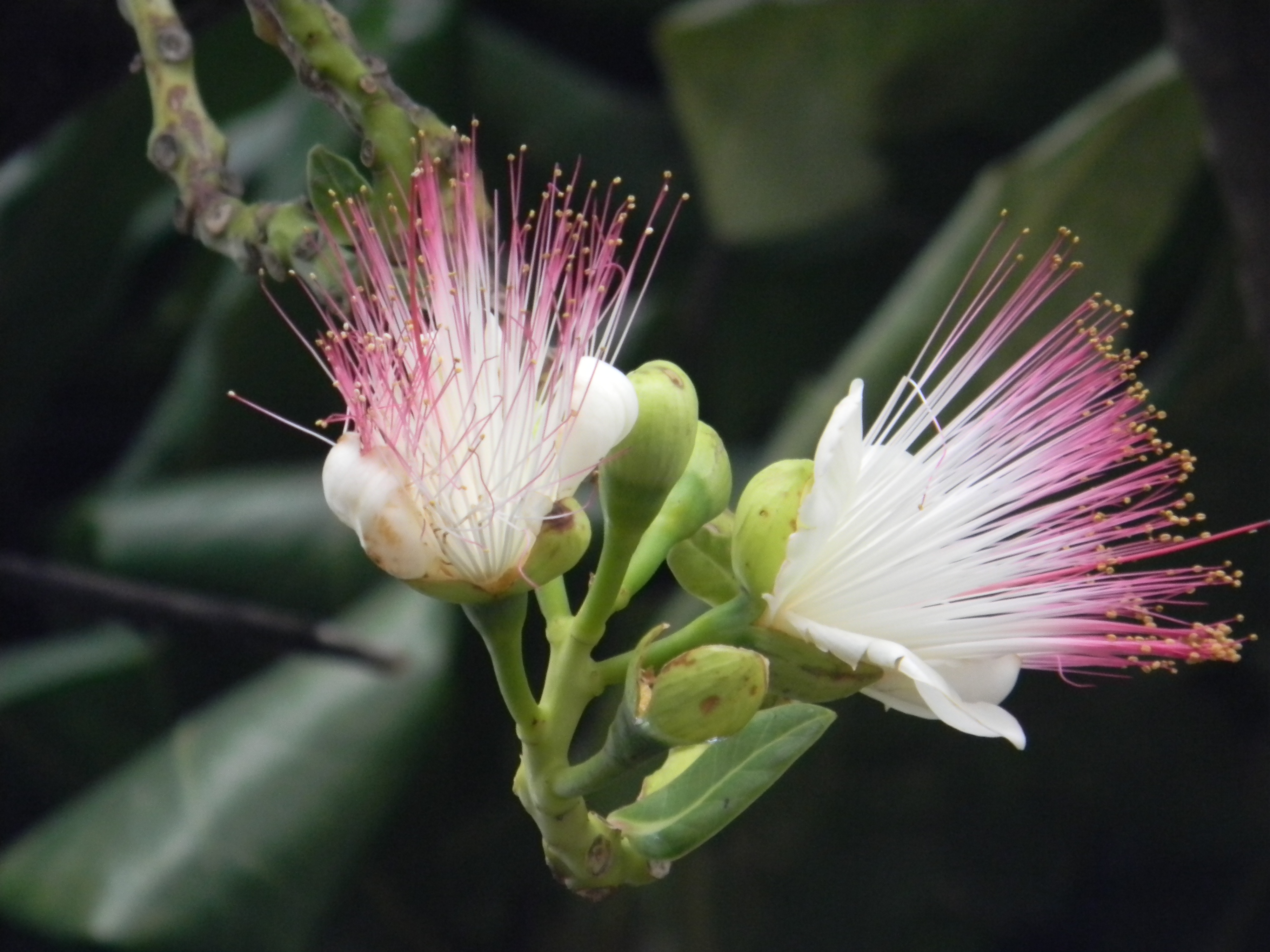 Medium-sized fragrant white four-petalled flower filled with numerous stamens tinged with purplish pink; borne on short erect racemes; the flower opens in the evening and fades in the morning.